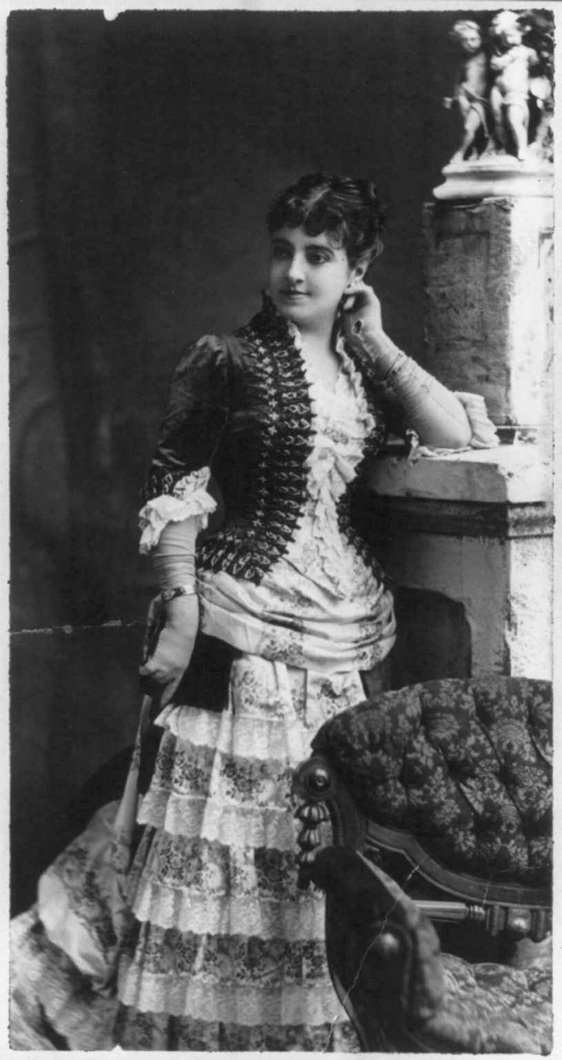 Adelina Patti (February 10, 1843 - September 27, 1919) was one of the most highly regarded opera singers of the 19th century.